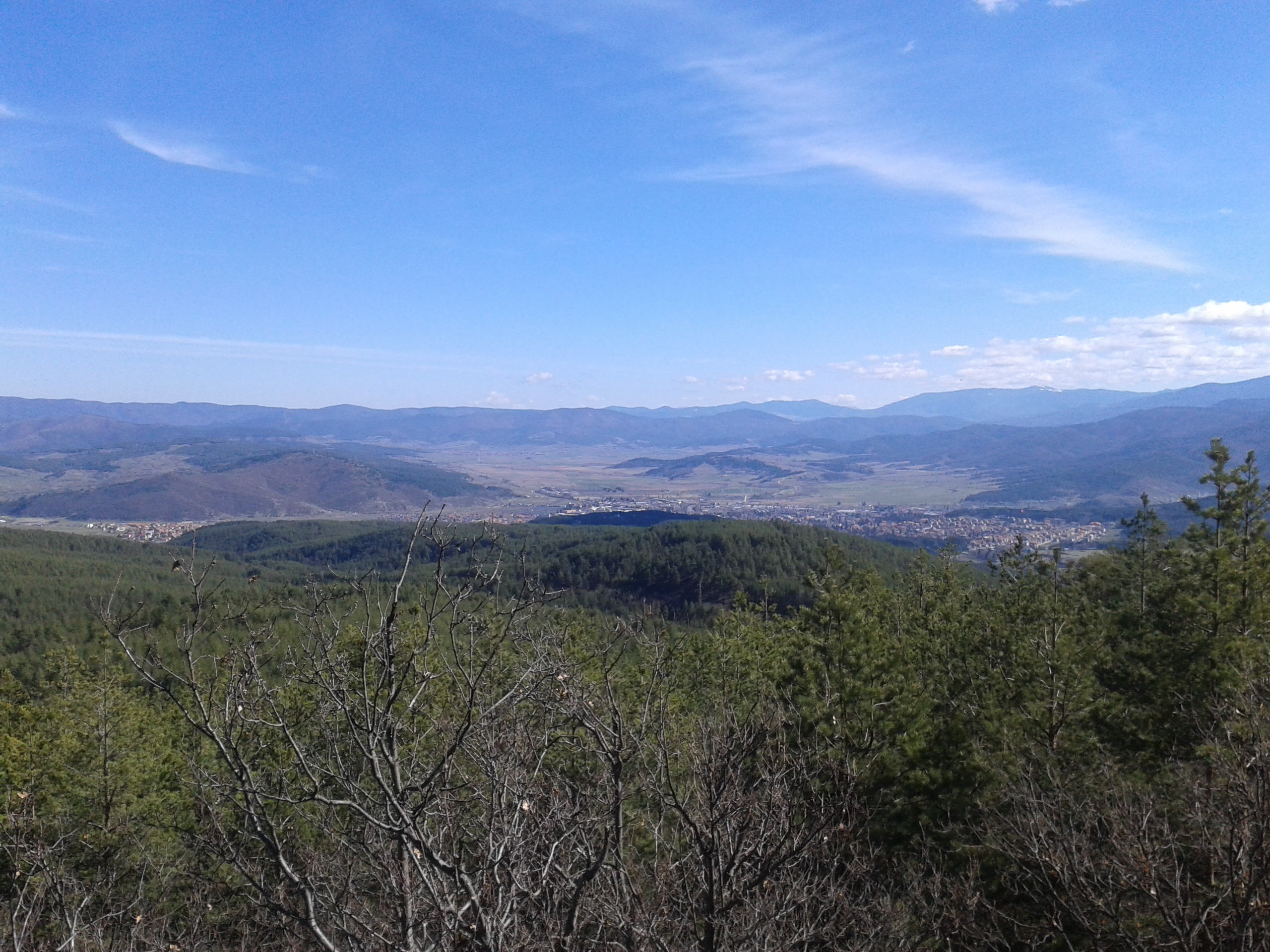 Chepino Valley